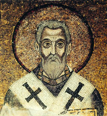 Epiphanius of Salamis Cyprus (Salaminskiy). Partial mosaics of the cathedral St. Sophia in Kiev. -and 40 years. XI century.